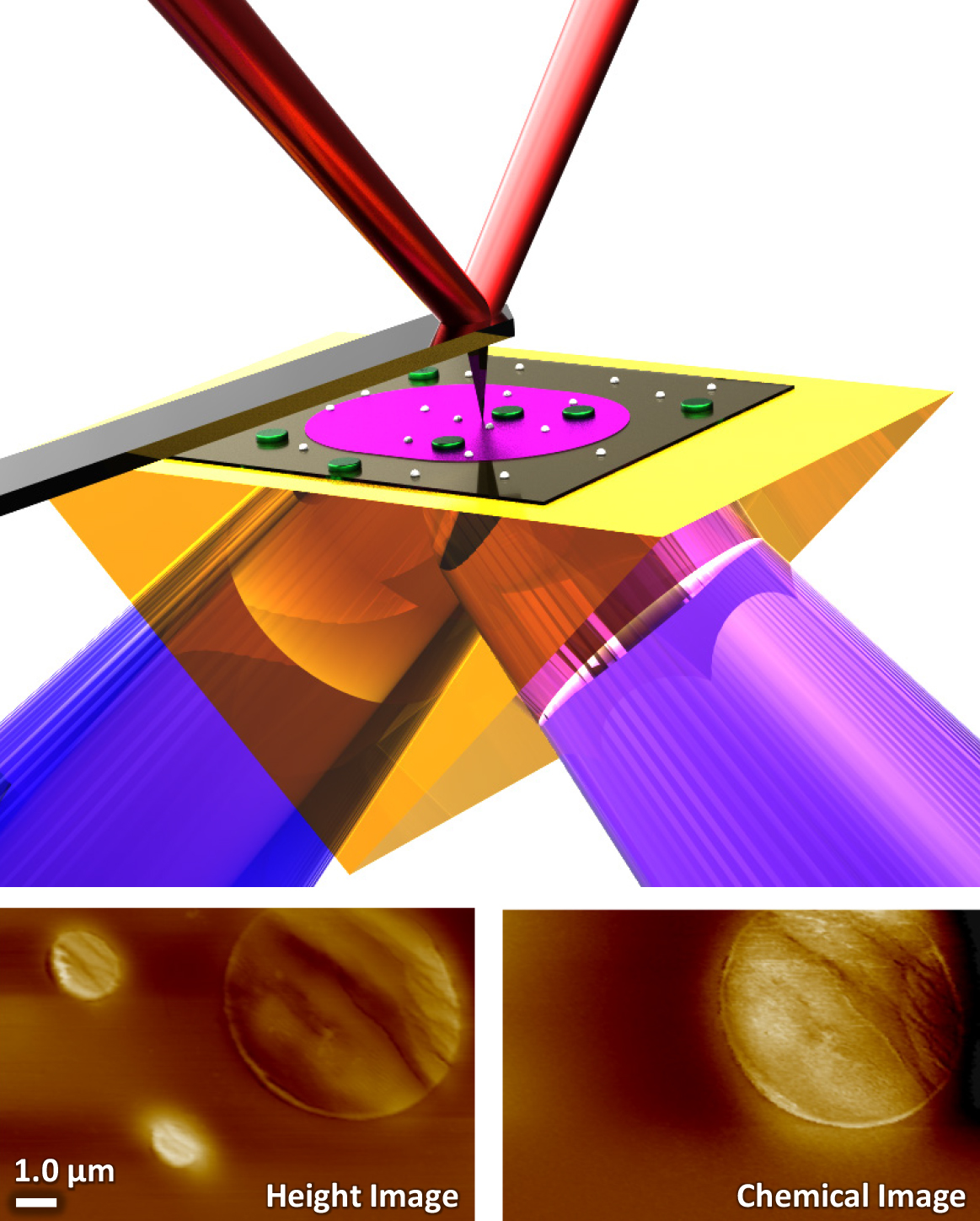 The sample (green/white) absorbs infrared laser light (purple) at wavelengths determined by its chemical composition, causing it to expand, which deflects the AFM cantilever. Bottom left: The AFM detects the height of two small polystyrene particles and a large polymethylmethacrylate (PMMA) particle. Bottom right: The light is tuned to be absorbed only by PMMA but not by polystyrene. Combining the data and recording chemical images at different wavelengths produces a map of the surface's topography and chemistry. Credit: Centrone/NIST Disclaimer: Any mention of commercial products within NIST web pages is for information only; it does not imply recommendation or endorsement by NIST. Use of NIST Information: These World Wide Web pages are provided as a public service by the National Institute of Standards and Technology (NIST). With the exception of material marked as copyrighted, information presented on these pages is considered public information and may be distributed or copied. Use of appropriate byline/photo/image credits is requested.